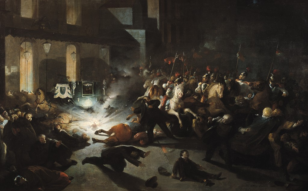 L'attentat de Felice Orsini contre Napoléon III devant la façade de l'Opéra, le 14 janvier 1858, oil painting of the failed assassination attempt of Felice Orsini near te ancient Salle Le Peletier.